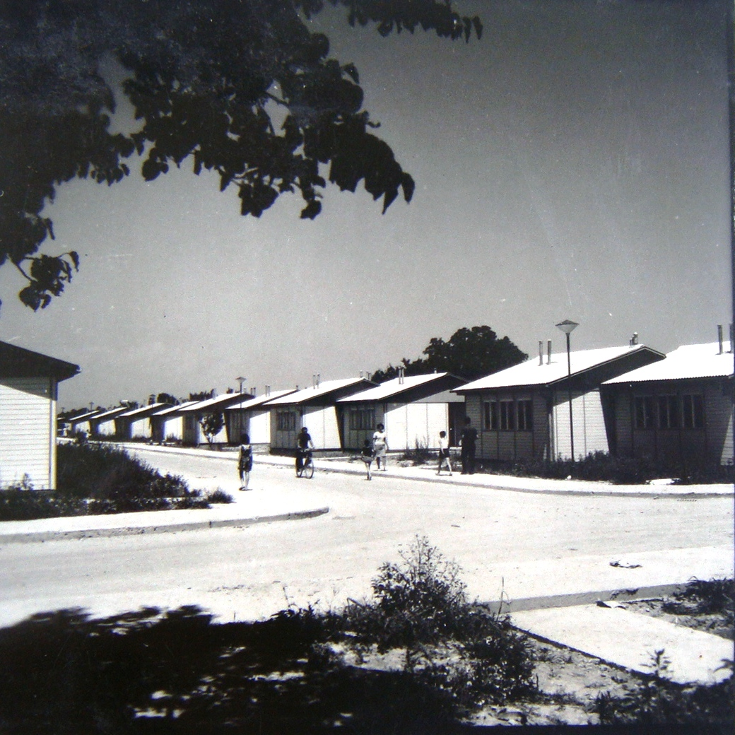 1963 Skopje earthquake: Apartments in the settlement Lisice donation from Monte Negro This media file is produced by Wikipedian in Residence in Category:Wikipedian in Residence at DARM in 2016.